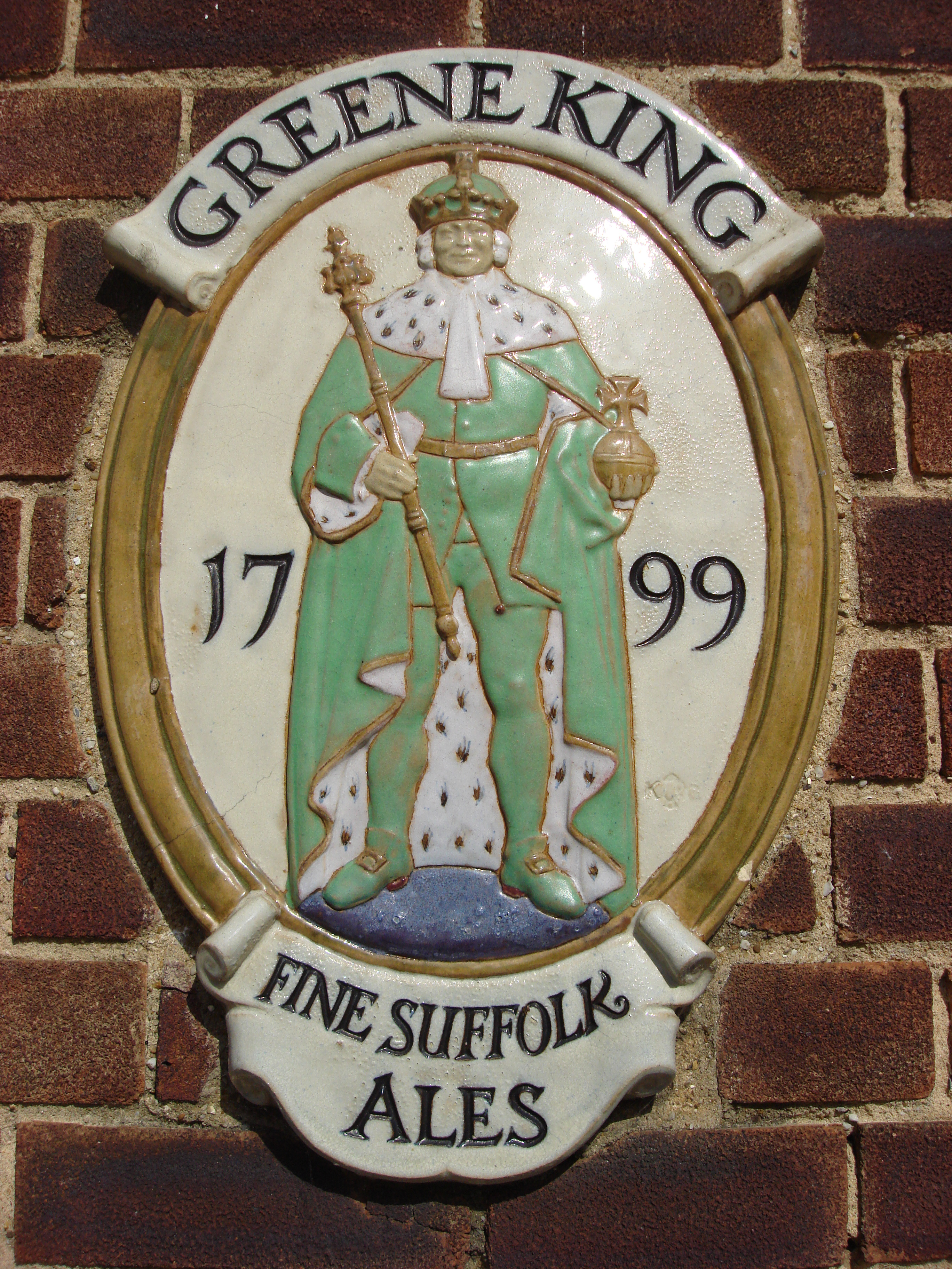 Greene King Brewery plaque on the side of North Street Tavern, Sudbury, Suffolk